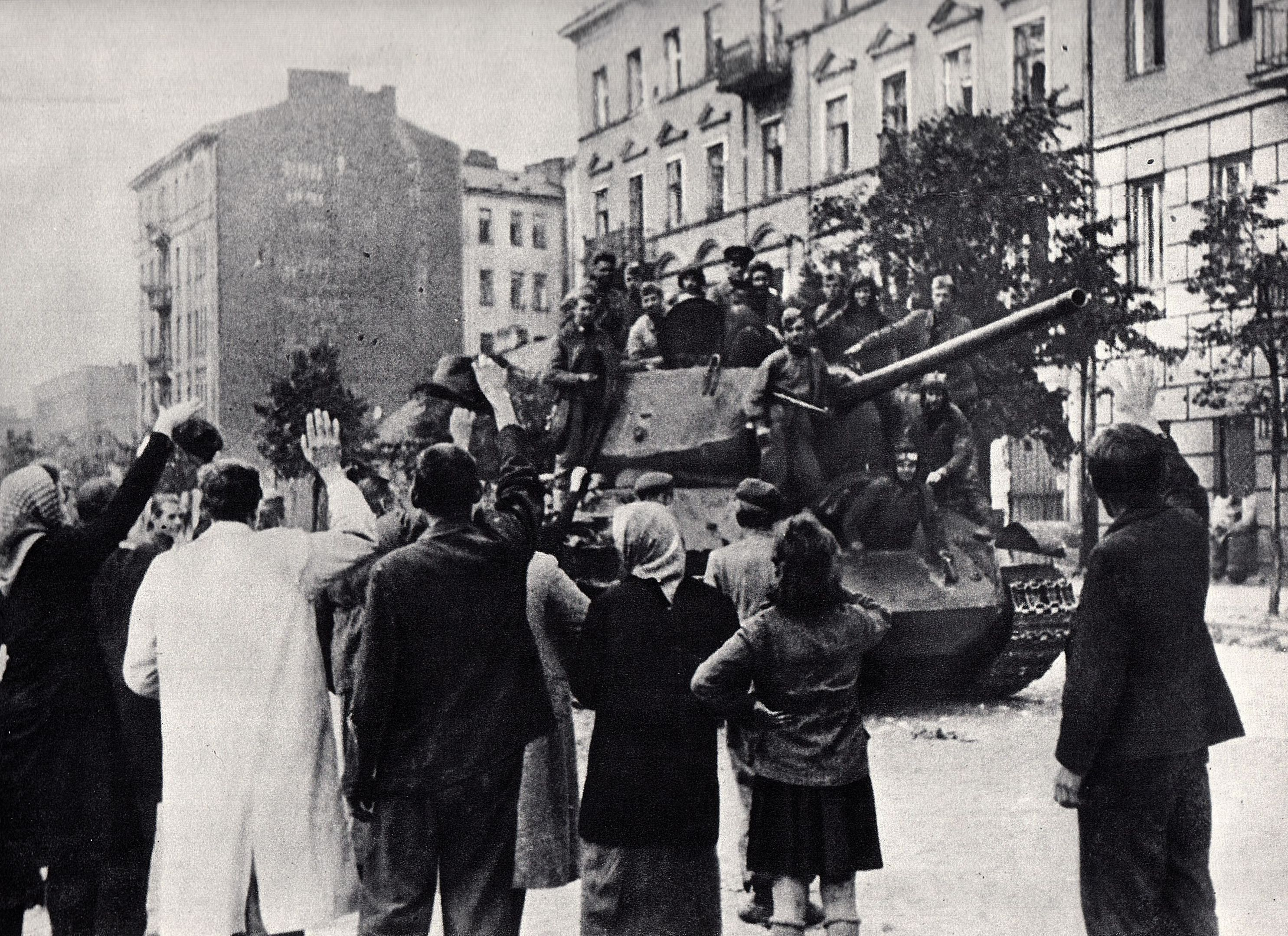 Liberation of Praga by Polish and Soviet troops in September 1944